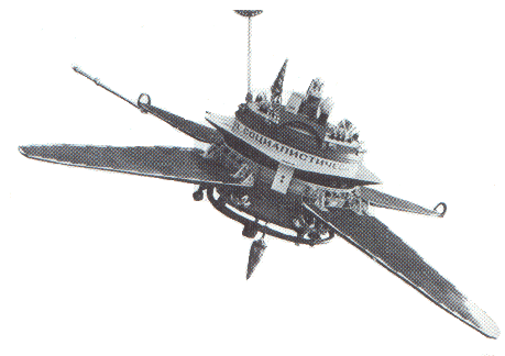 Prognoz 2 space probe